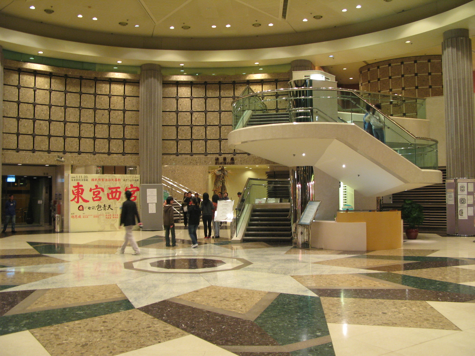 HK Kwai Tsing Theatre Lobby at Night